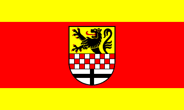 flag of the Märkischer Kreis.